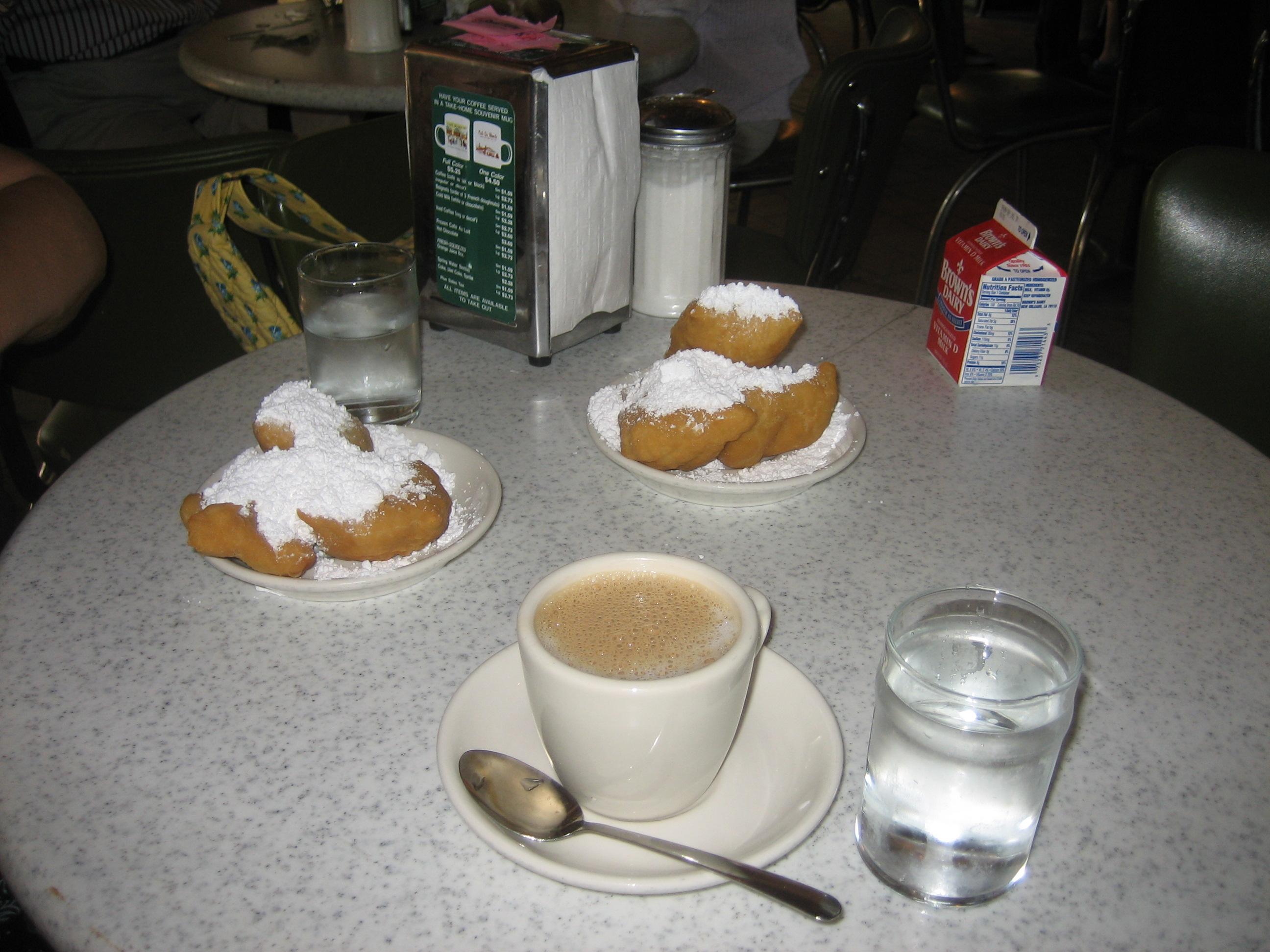 Cup of café au lait, beignets, milk, and water with ice, on table at original French Quarter location of Café du Monde.